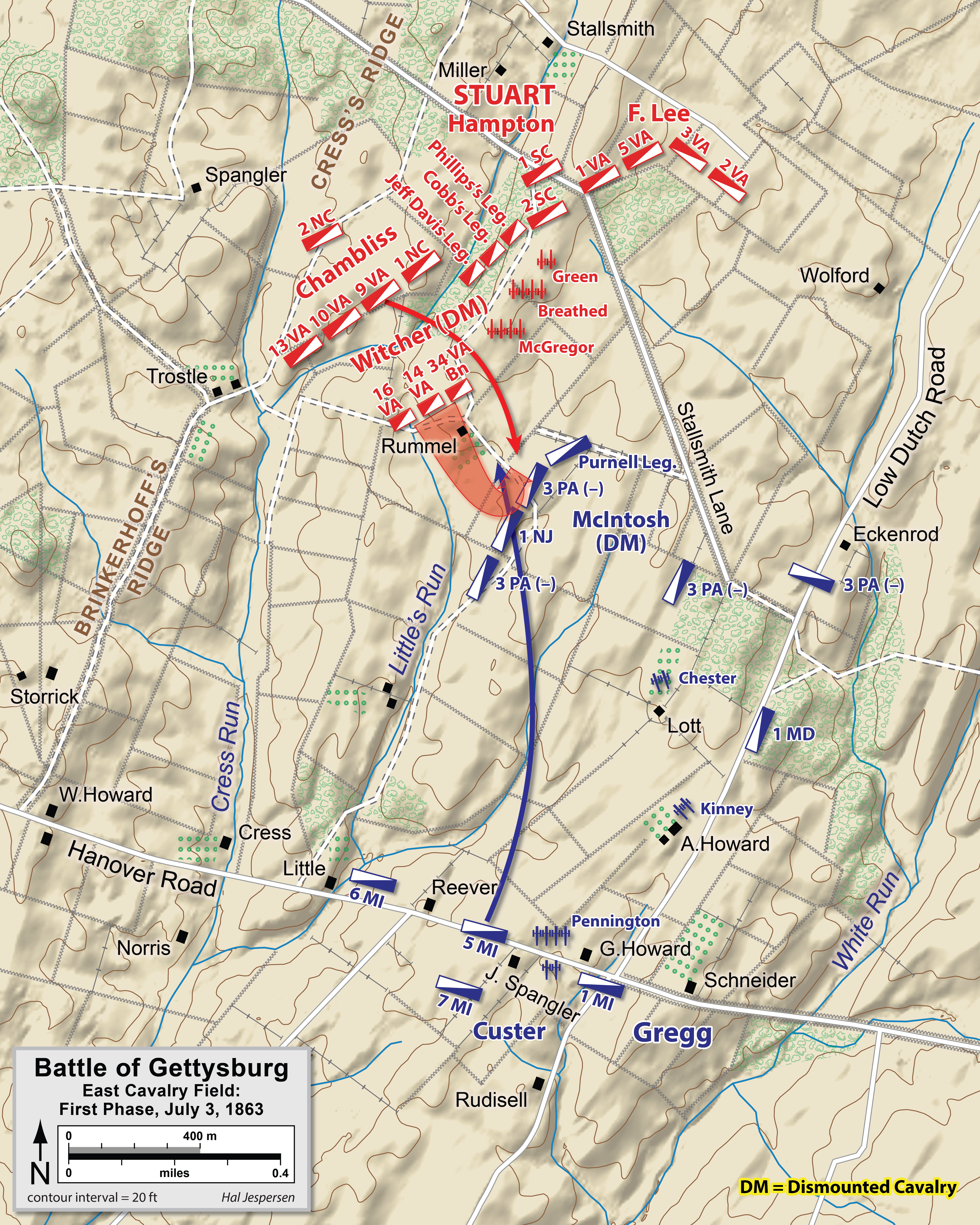 Map of actions in the Battle of Gettysburg, third day, East Cavalry Field (1 of 3). New version improves accuracy of unit positions and graphic style that matches others in the Gettysburg series. Added legend box. Drawn by Hal Jespersen in Adobe Illustrator CS5. Graphic source file is available at